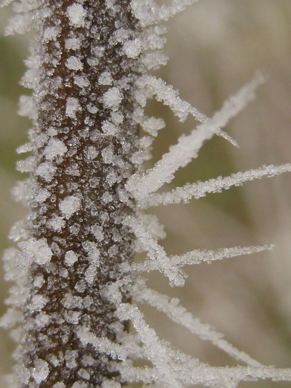 Hoar frost